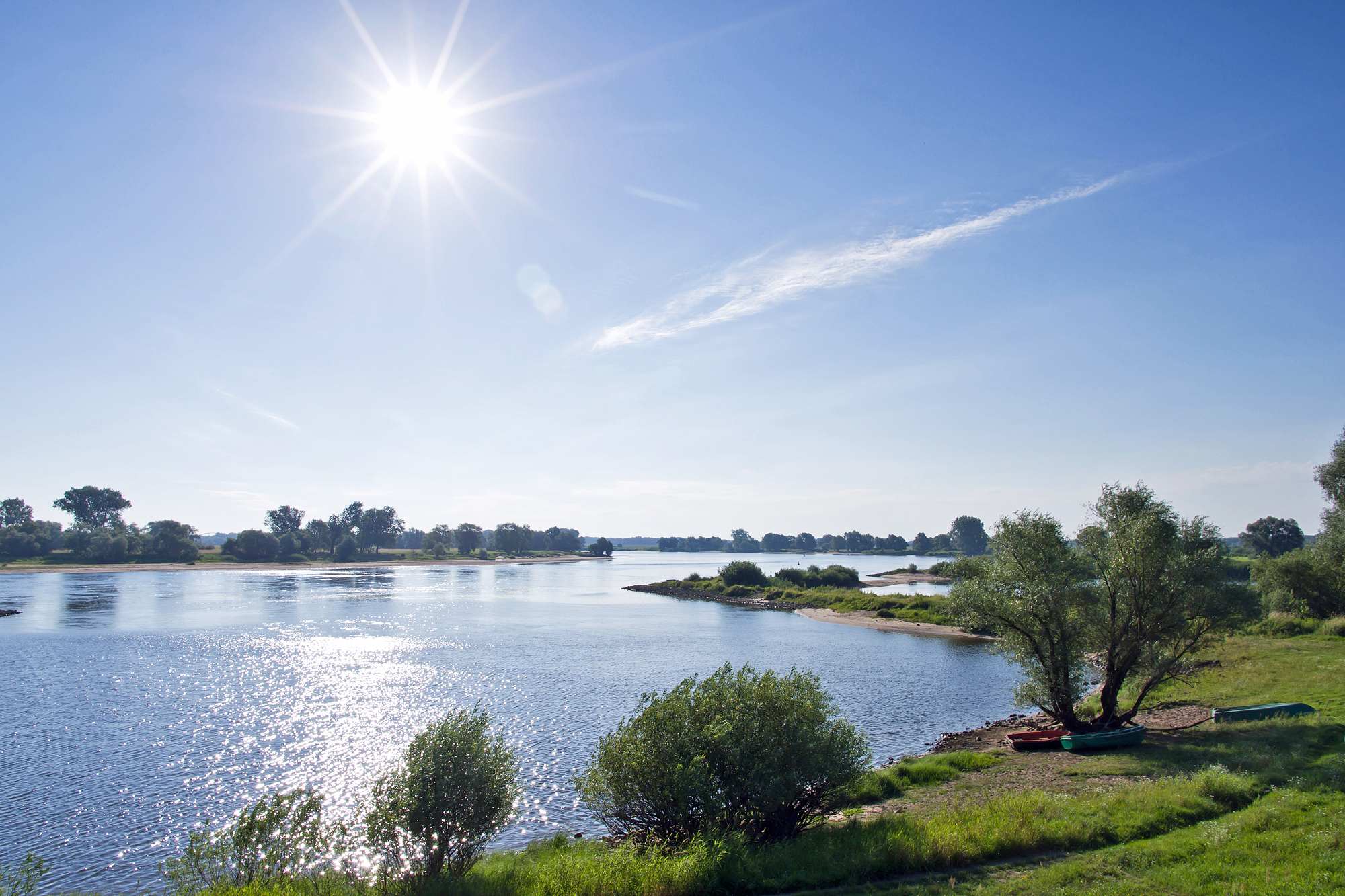 Summer morning at the river Elbe in the village Damnatz (district Lüchow-Dannenberg).